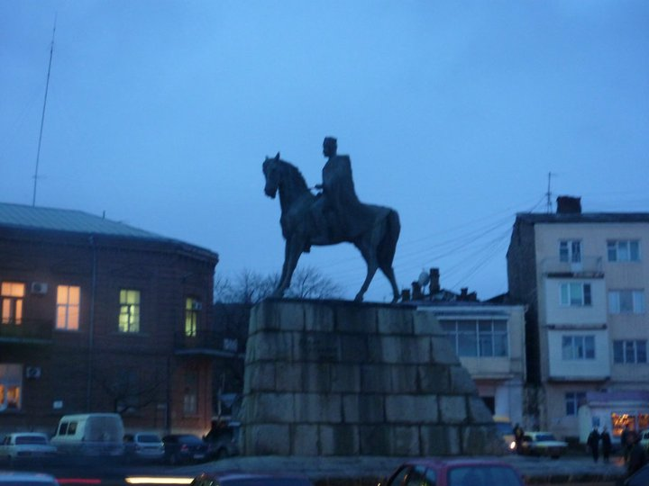 Памятник Магомед-Али Дахадаеву перед зданием вокзала г. Махачкала. Statue von Magomed-Ali Dachadajew vor dem Bahnhof in Machatschkala. Statue of Magomed-Ali Dakhadayev in front of the railway station of Makhachkala.